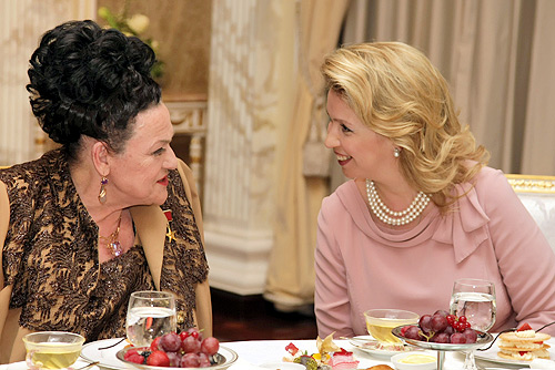 MOSCOW. Informal function honouring singer Lyudmila Zykina.